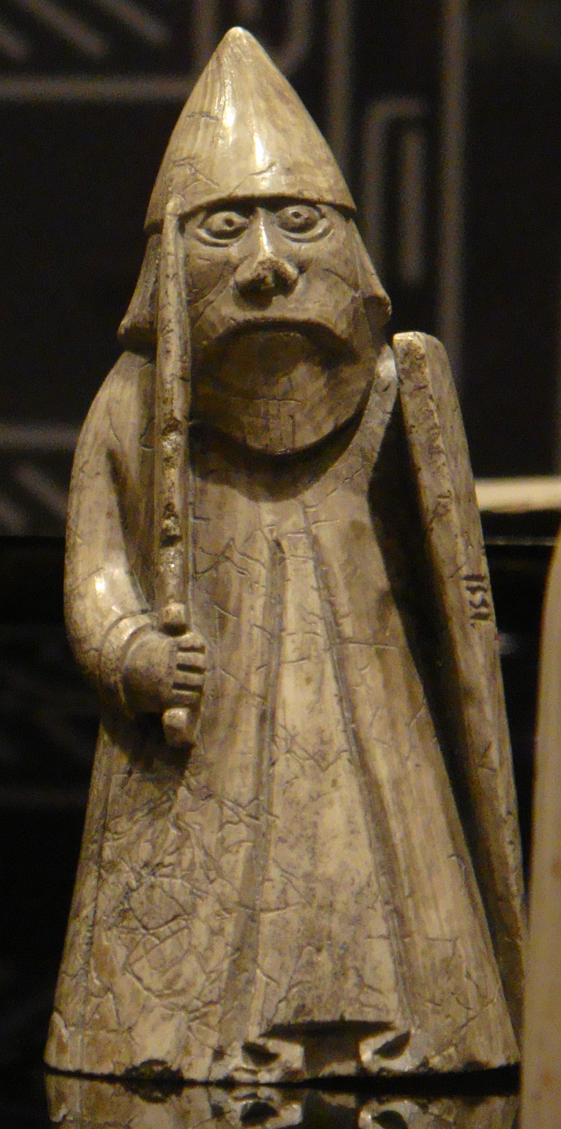 One of the Lewis chessmen. This image is a cropped version of: File:Lewis chessmen 15.JPG.